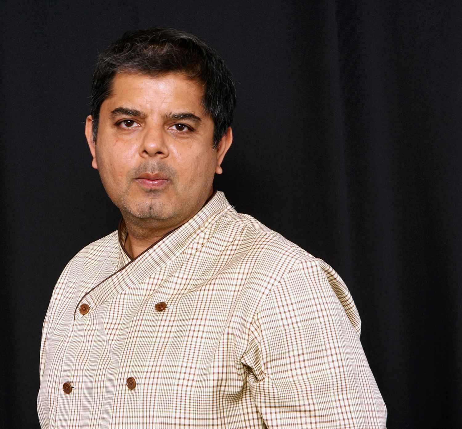 Hemant Bhagwani is an Indo-Canadian chef, sommelier, restaurateur, cookbook author, and entrepreneur based in Toronto, Ontario, Canada.